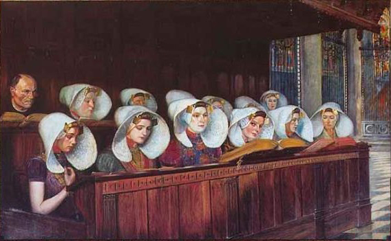 De begijnen van Goes bij de kerkdienst Woman looking at the viewer is possibly a selfportrait Hôtel George V (Paris), 80